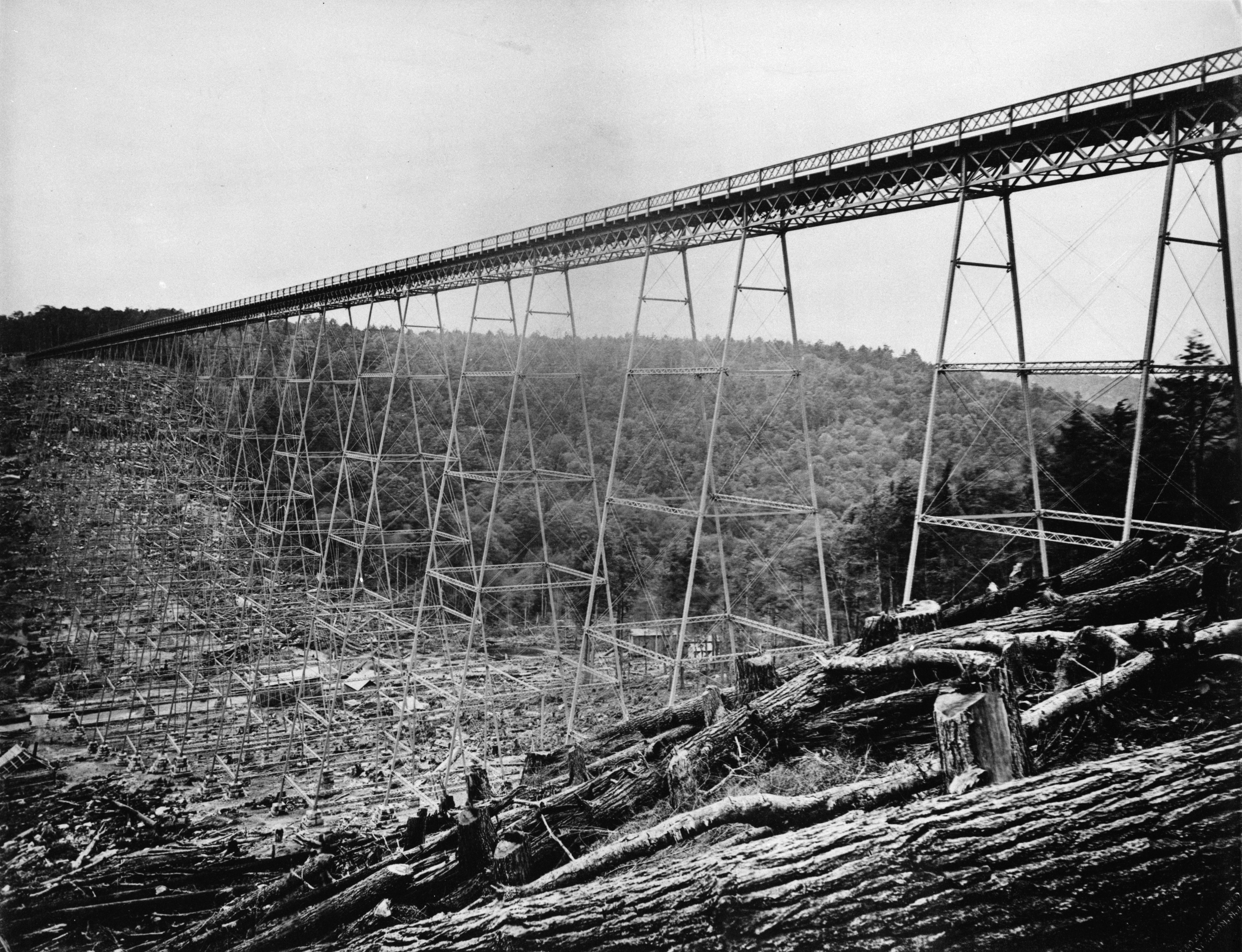 The Kinzua Bridge in McKean County, Pennsylvania. Original number was "HAER PA,42-MOJEW.V,1-27".